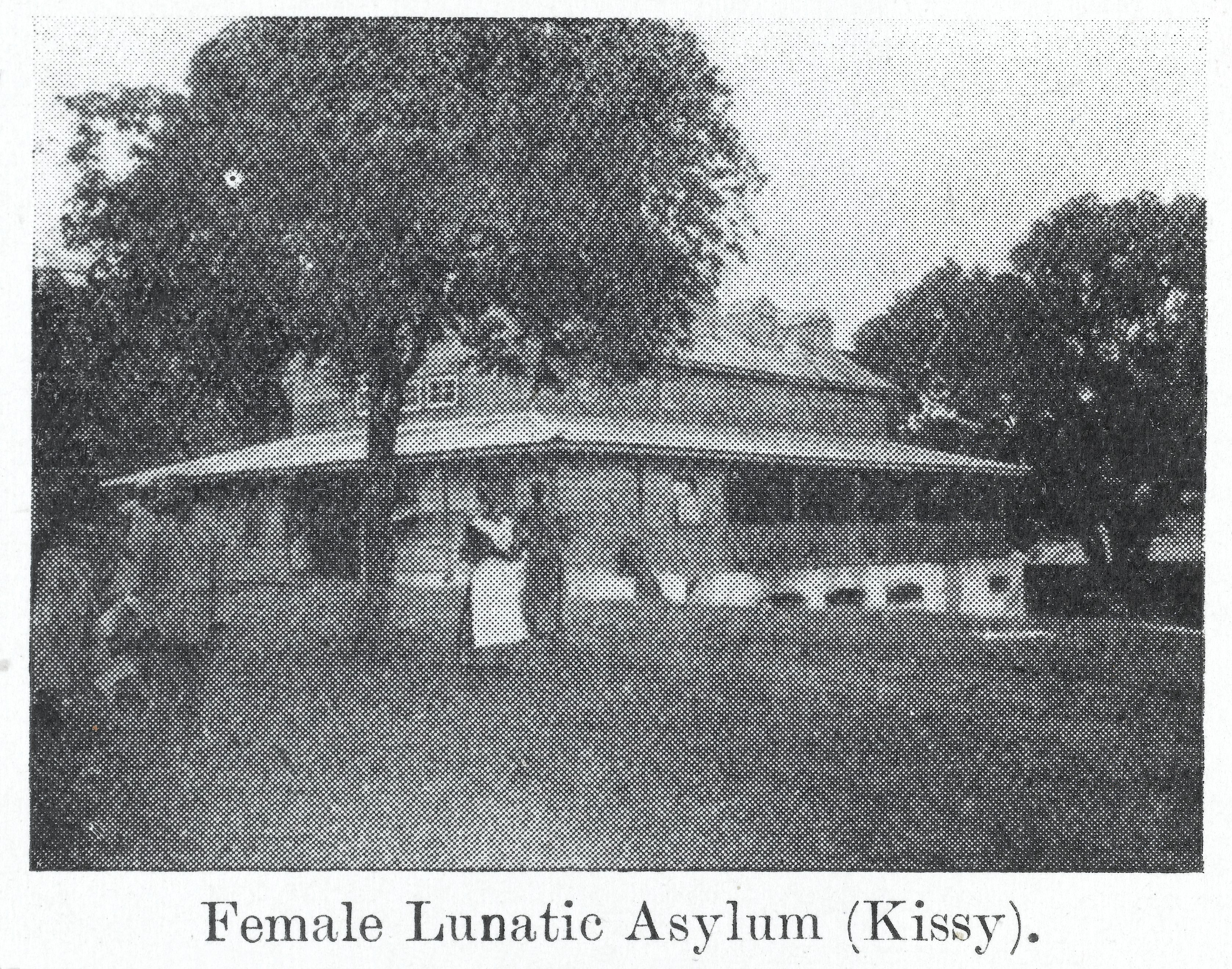 Photograph of a female lunatic asylum at Kissy in Sierra Leone General Collections Keywords: Mental illness; Health Services Administration; Public Health Administration; Sanitation